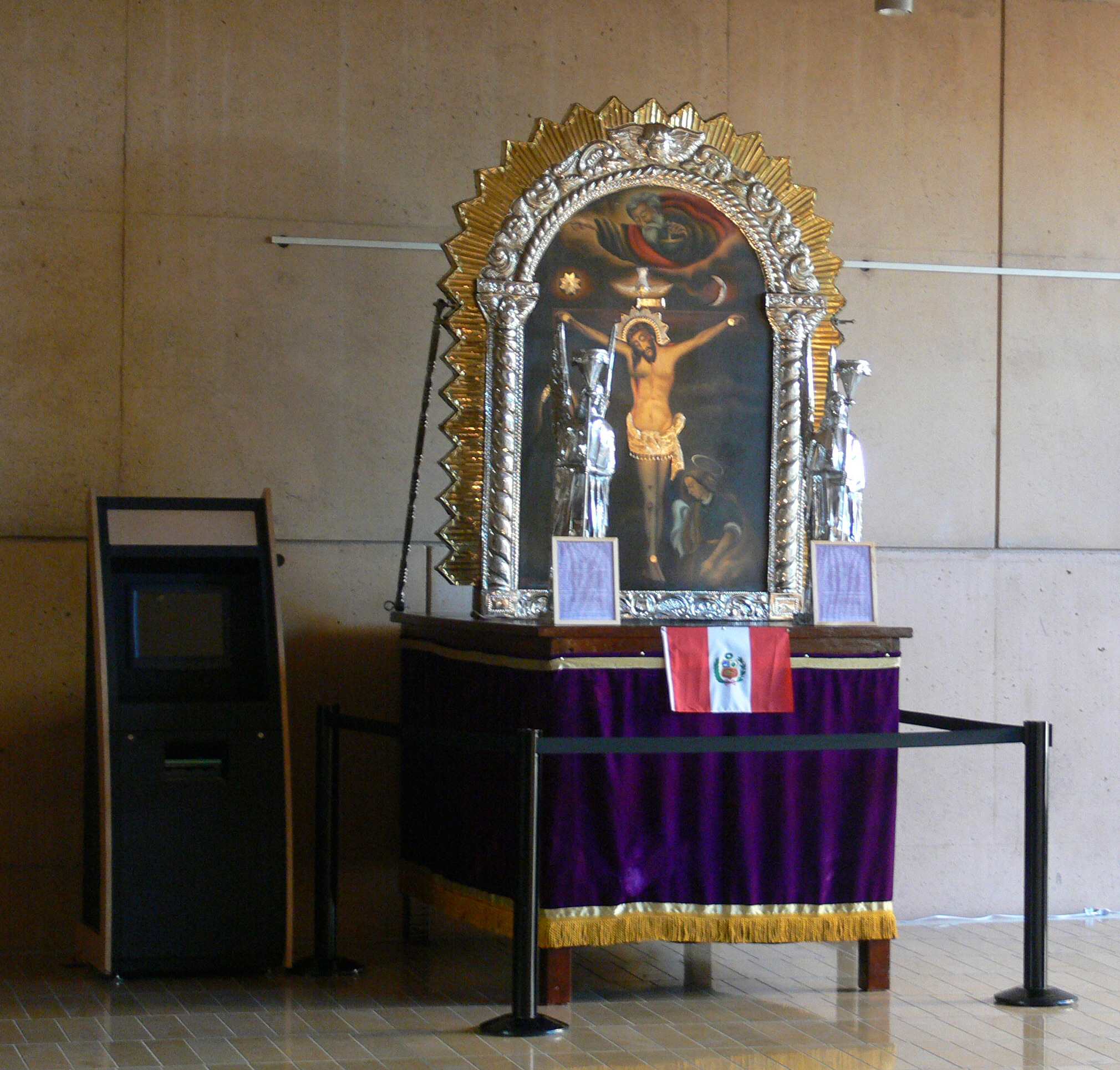 Roman Catholic Cathedral of Our Lady of the Angels, Los Angeles, California Altar of the Lord of Miracles ("Señor de los Milagros de Nazarenas", Lima, Peru)